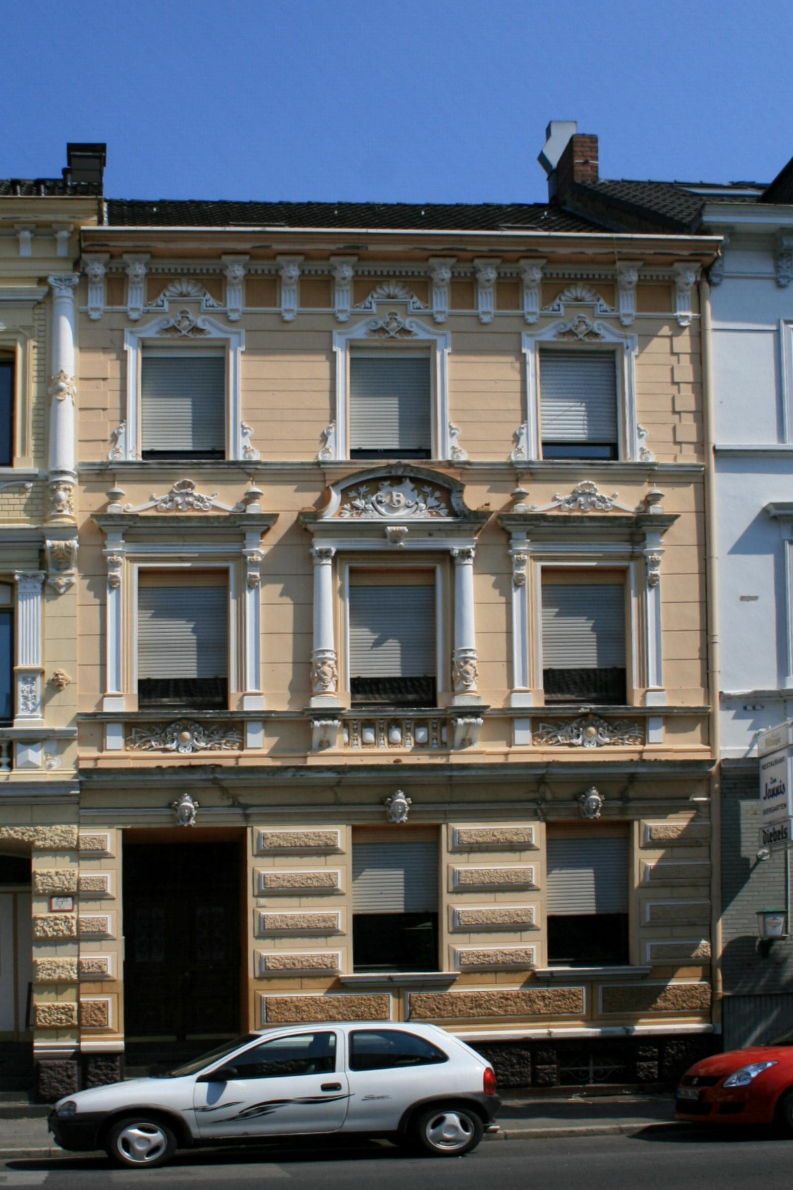 Cultural heritage monument No. B 063 in Mönchengladbach